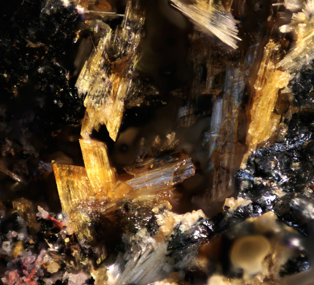 Locality: Hagendorf South Pegmatite, Bavaria, Germany Size: 3.4 × 2.4 × 1.8 cm Description: Hagendorf pegmatites are well known for phosphate species. Strunzite and rockbridgeite are more or less common, but keckite is very rare. In this specimen we can see some defined crystals of keckite, with tabular forms, transparence and orange color. Acompanied by strunzite white needles and black rockbridgeite-frondellite. In this specimen we have two species from the Type Locality: keckite and strunzite.